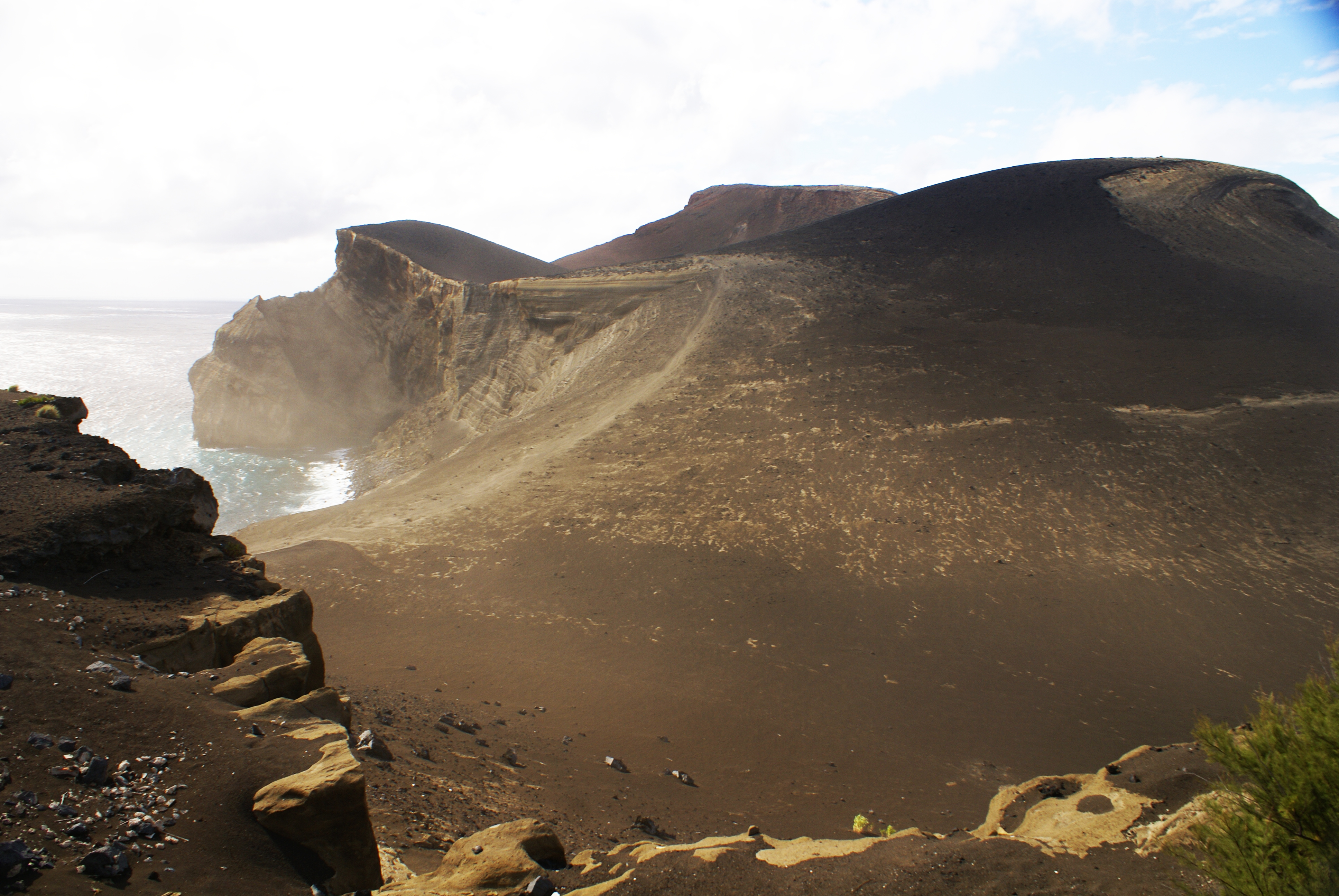 Vulcão dos Capelinhos, aspectos 3 ilha do Faial, Açores, Portugal